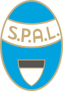 Logo of S.P.A.L. ("Società Polisportiva Ars et Labor"), Italian football club based in Ferrara, Emilia-Romagna.